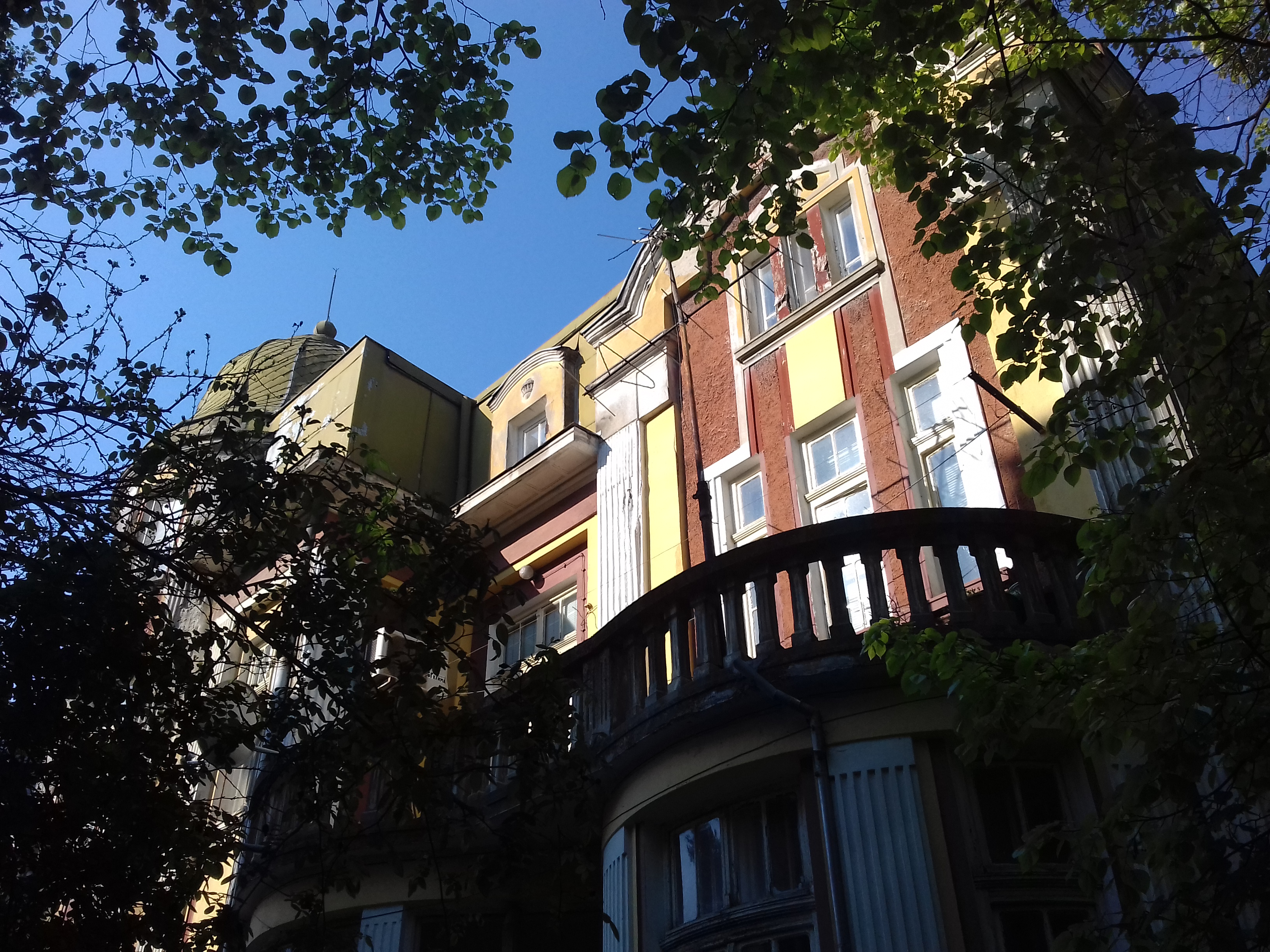 Stefan Rafailov's house in Stara Zagora, Bulgaria